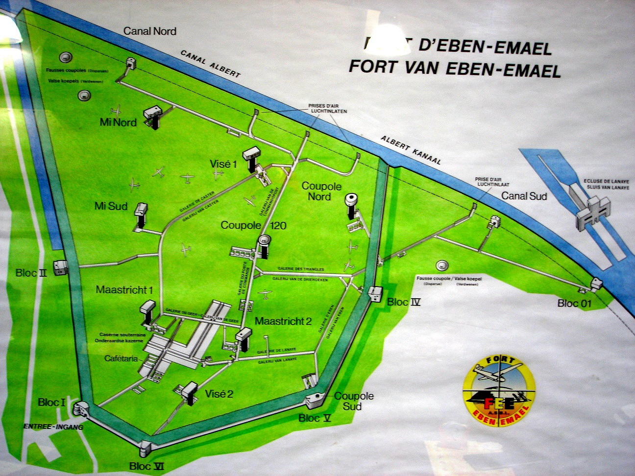 Fort Eben-Emael